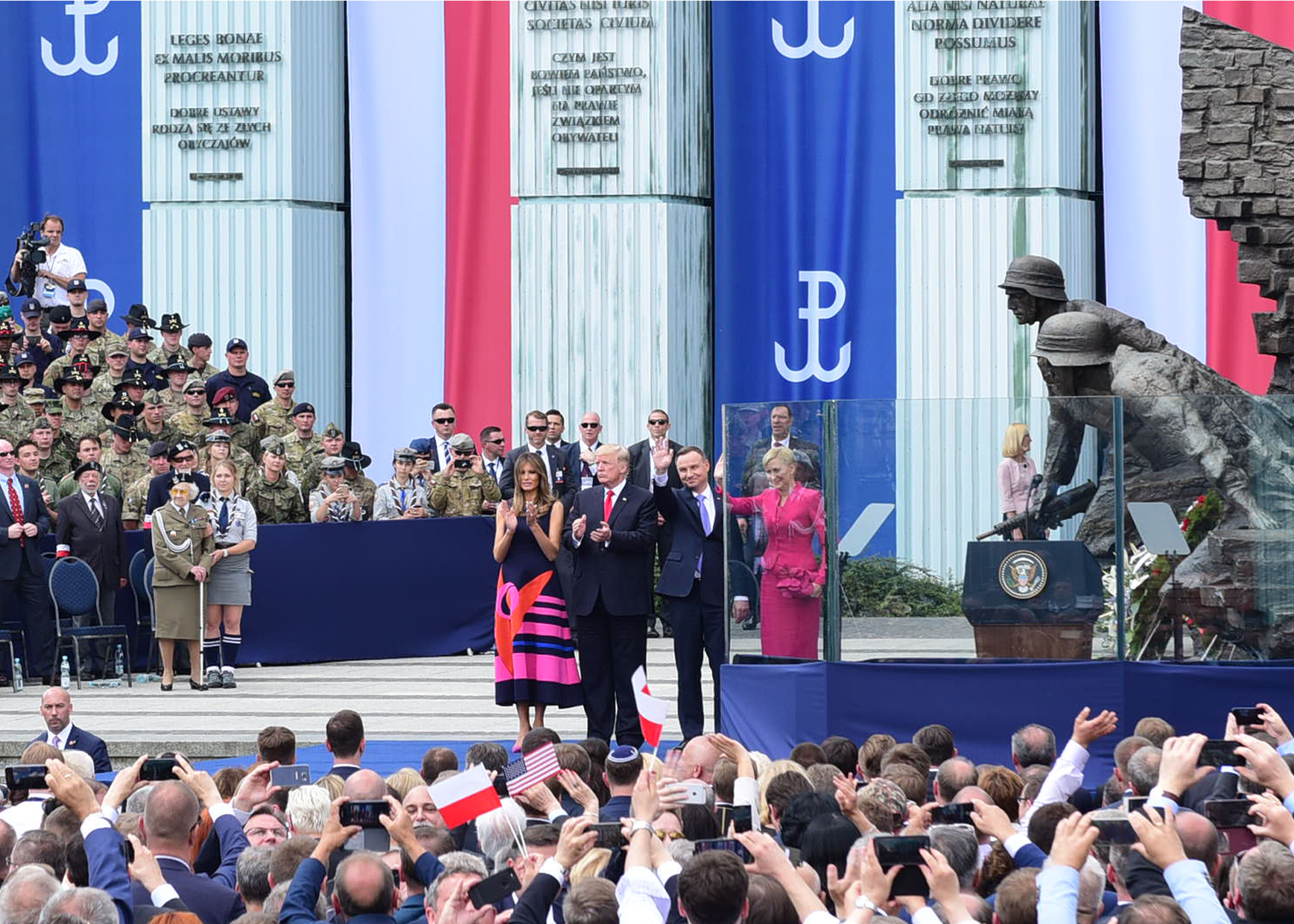 U.S. President Donald Trump stands next to Polish President Andrzej Duda as both presidents acknowledge the citizens of Poland during Trump's first presidential visit to Warsaw, Poland, at the Warsaw Uprising Monument in Krasiński Square July 6. Battle Group Poland soldiers traveled from Bemowo Piskie Training Area to Warsaw to stand in formation while President Trump delivered his address about U.S. and Polish military and economic relationships to thousands of Polish citizens and visitors. Unit: Battle Group Poland DVIDS Tags: NATO; interoperability; eFP; deterrence; Allies; Poland; Warsaw; US Army Europe; 2nd Cavalry Regiment; building relationships; Mustang Troop; 15th Mechanized Brigade; JFC Brunssum; deter aggression; Allied Joint Force Command; Strong Europe; President Donald Trump; Enhanced Forward Presence; Battle Group Poland; nation partnerships; Blue Scorpions; MCNE; President Andrzej Duda; Warsaw Uprising Monument